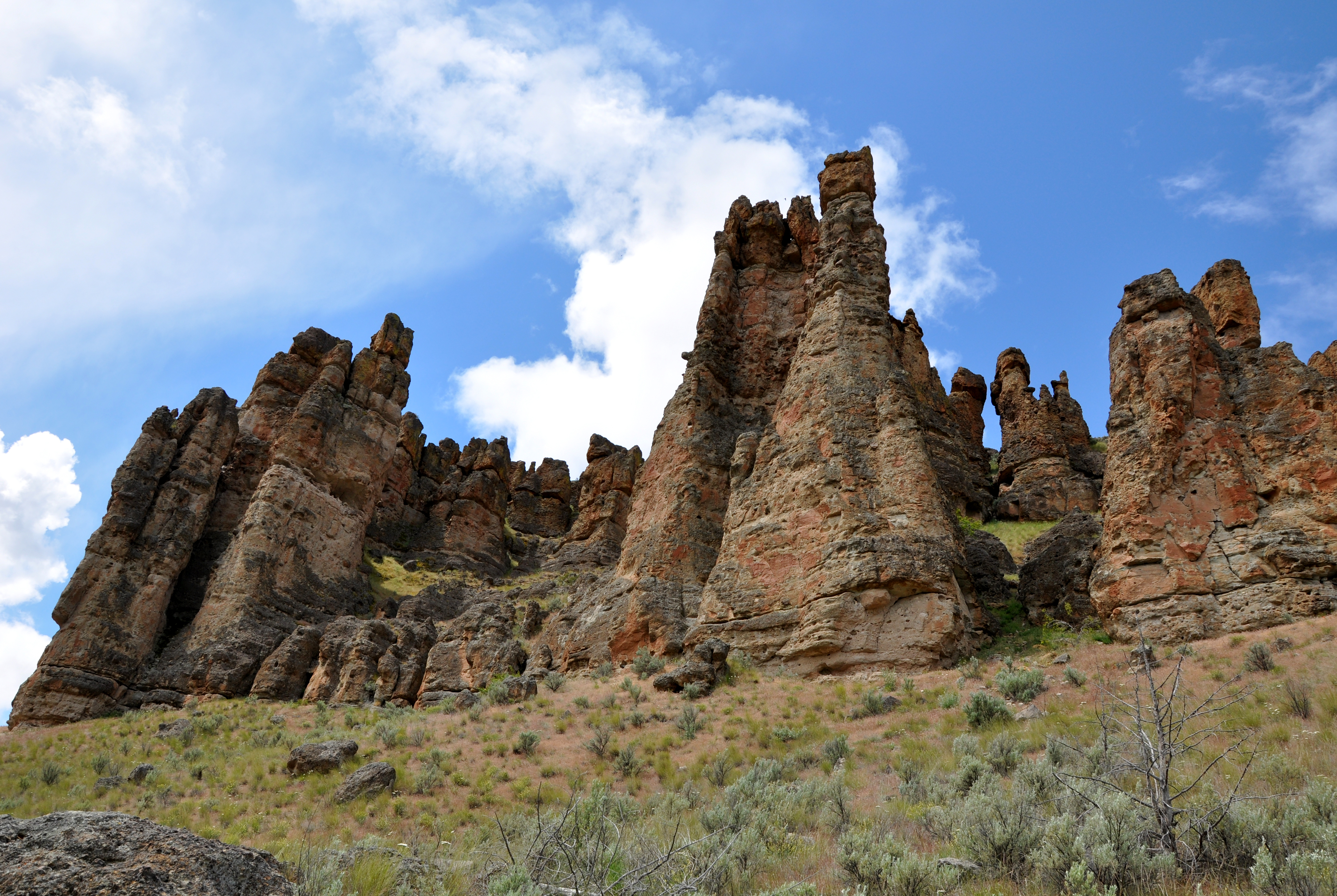 Palisades at the Clarno unit of the John Day Fossil Beds National Monument near Clarno in the U.S. state of Oregon.